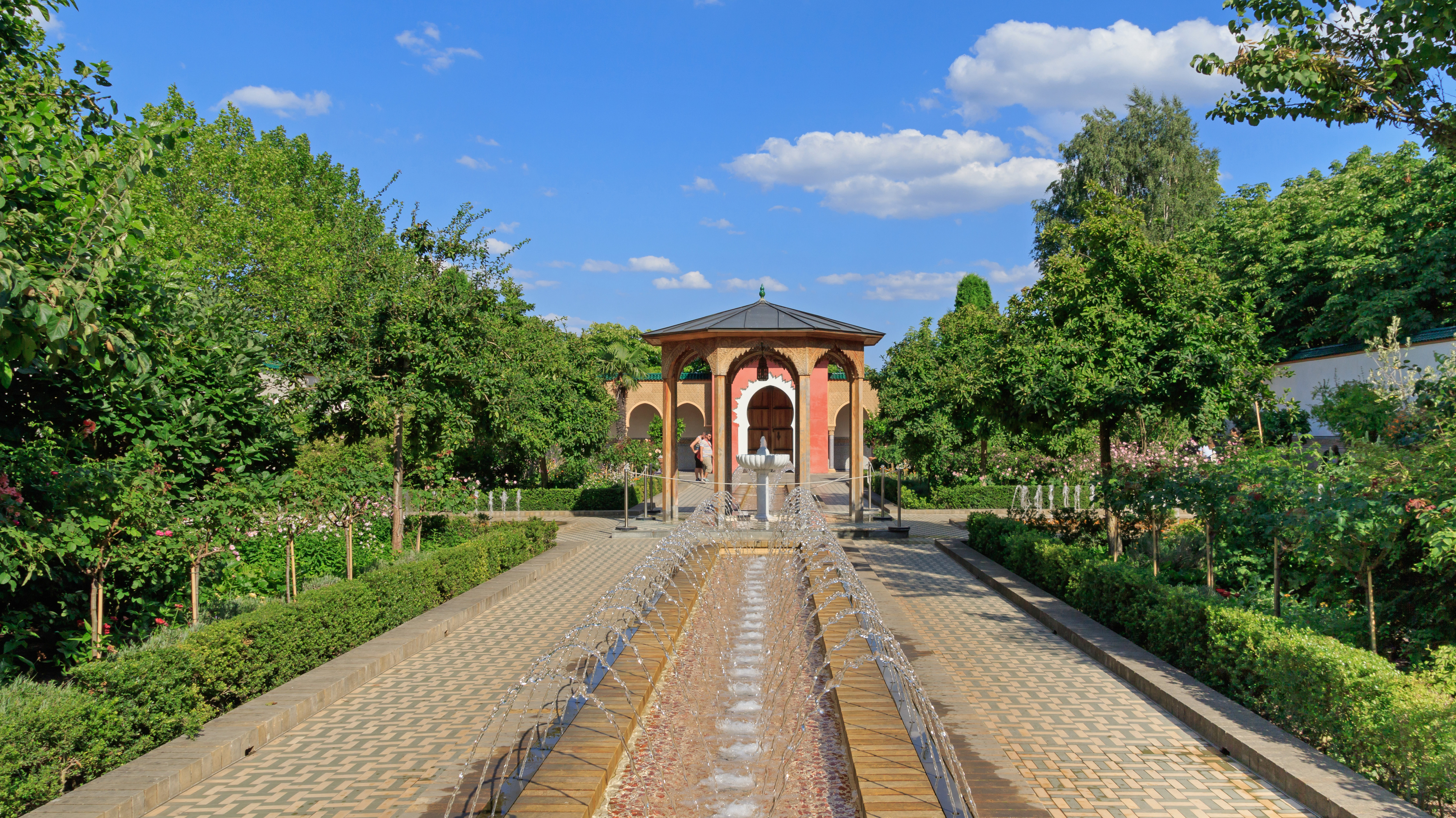 Berlin-Marzahn Gardens of the World: Oriental Garden